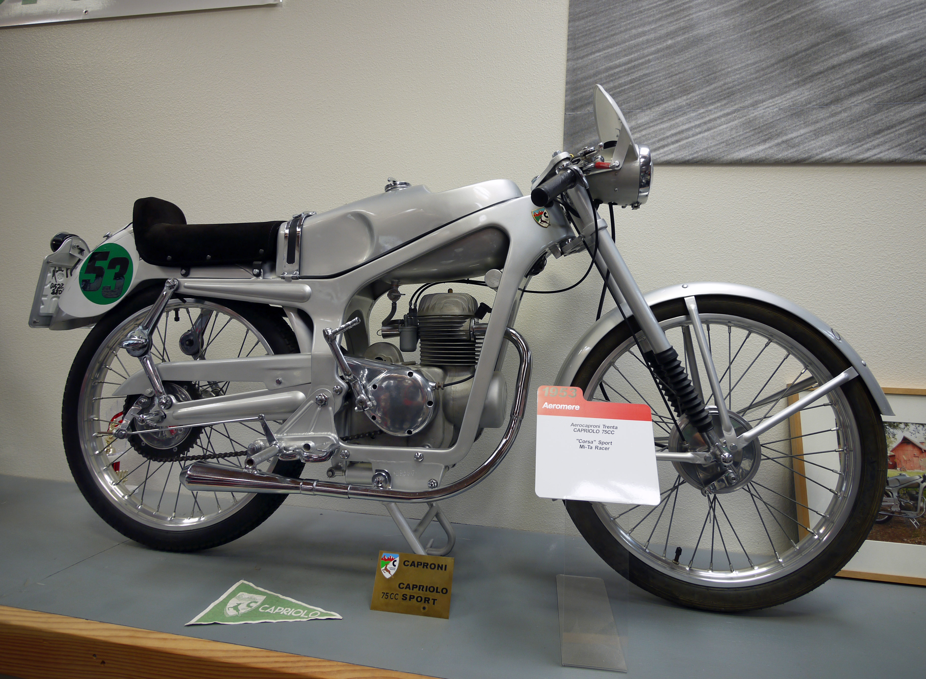 Aero-Caproni Capriolo 75 Sport Corsa, MSDS, version Milano-Taranto, 1953